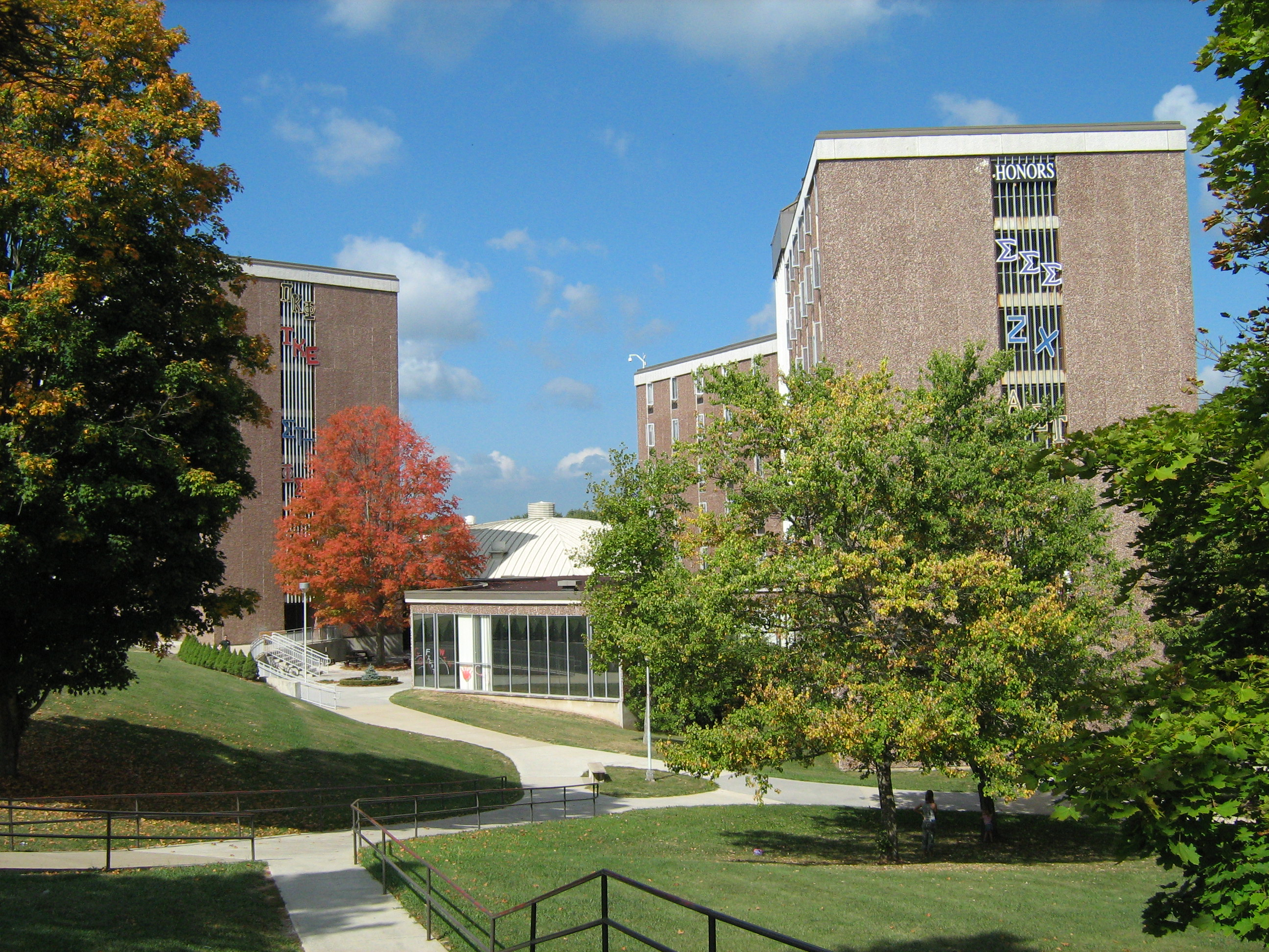 Concord University - One of the residence facilities on campus - the North (left) and South (right) Towers.